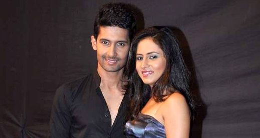 Ravi Dubey and Sargun Mehta at 2013 C.I.D Veerta Awards